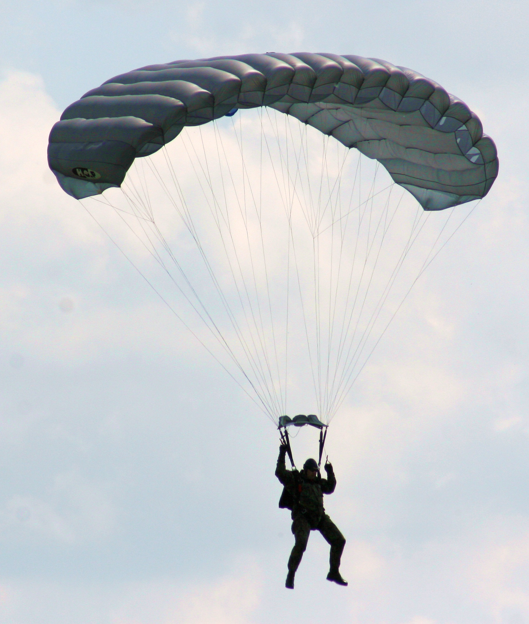 A paratrooper of the Czech military at Open Day 2009, AFB Čáslav (LKCV), Chotusice, The Czech Republic